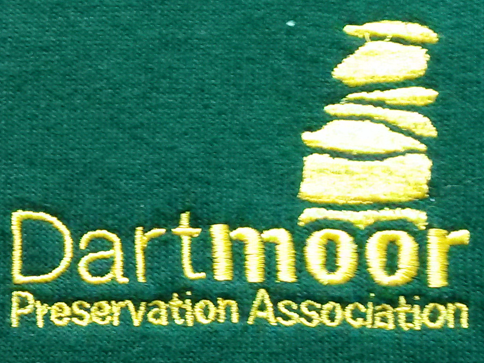 DPA Infobox image